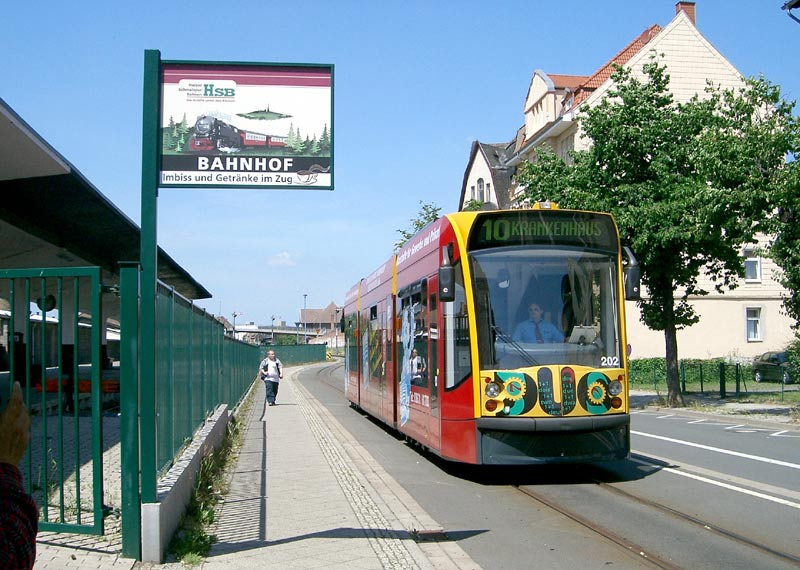 A Nordhausen "DUO" tramtrain on the linking track between the urban tramway (where they are electrically powered via overhead wires) and the rural heavy rail HSB (Harzer Schmalspurbahn / Harz Narrow-Gauge Railway) - where they are powered via an onboard diesel engine. This vehicle is passing alongside the HSB station, the advertising board promotes the HSB's steam train services.